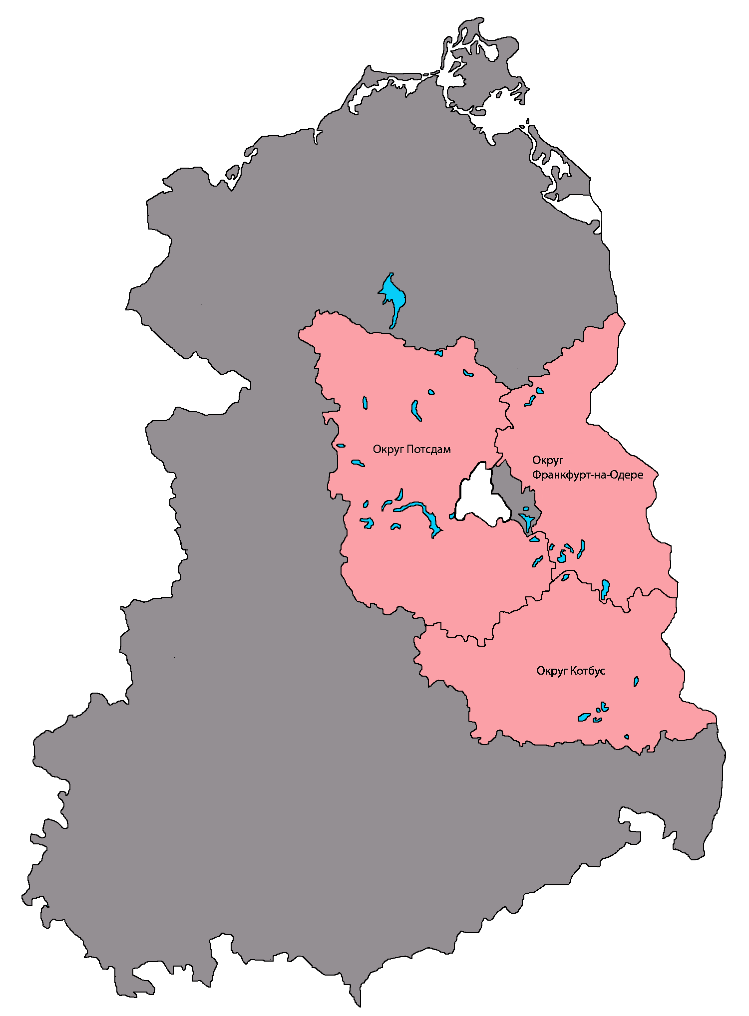 The districst of Brandenburg in the GDR.